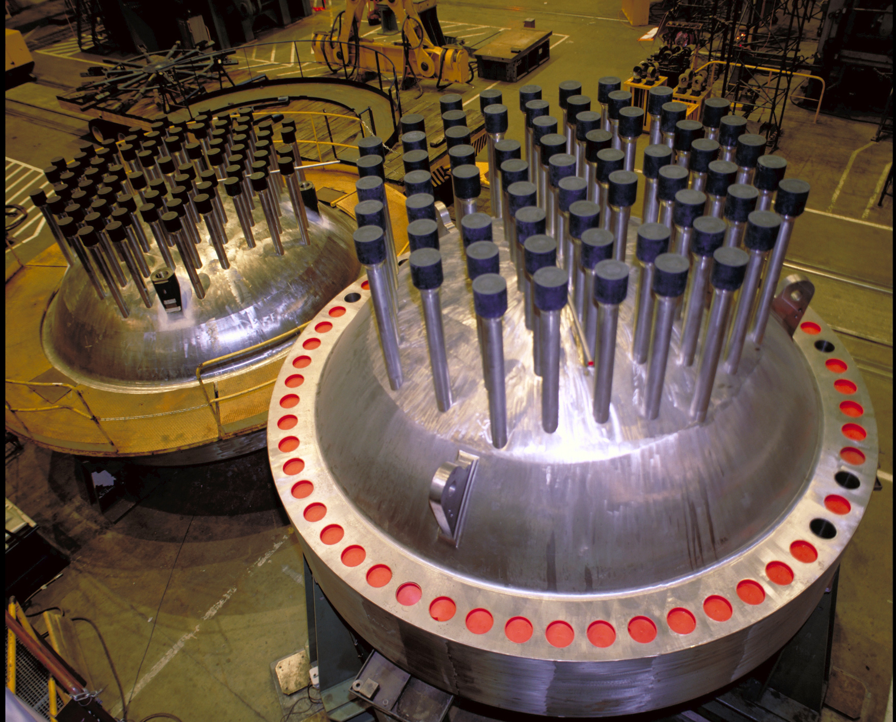 NRC Image of PWR Reactor Vessel Heads